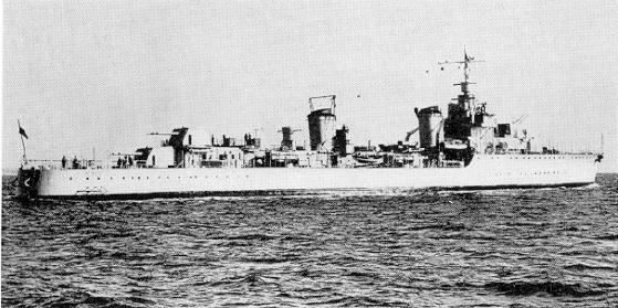 The French destroyer Mogador, ONI203 booklet for identification of ships of the French Navy, published by the Division of Naval Inteligence of the Navy Department of the United States (9 November 1942).